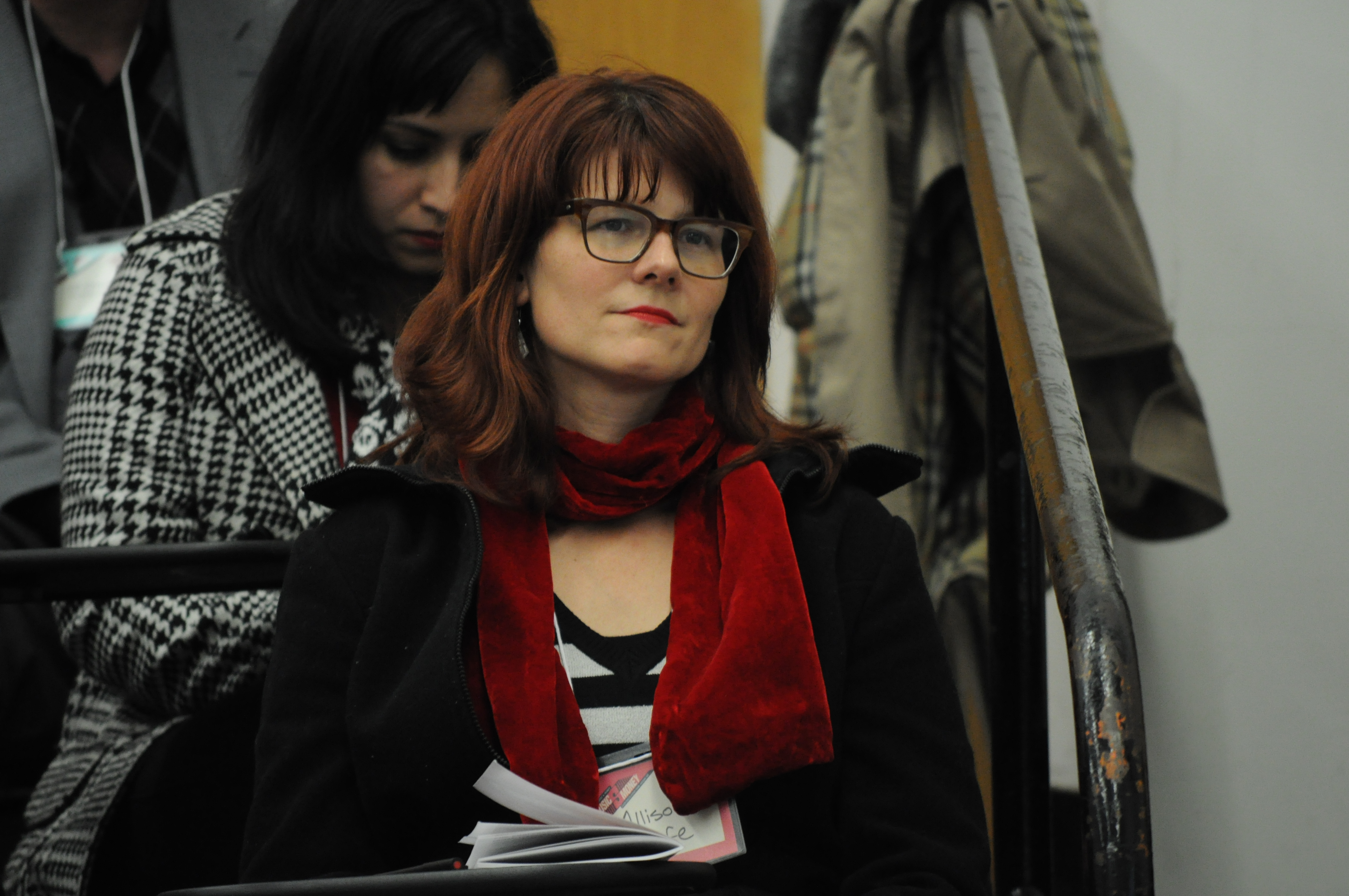 Allison Wolfe attending the 2011 Pop Conference at UCLA.